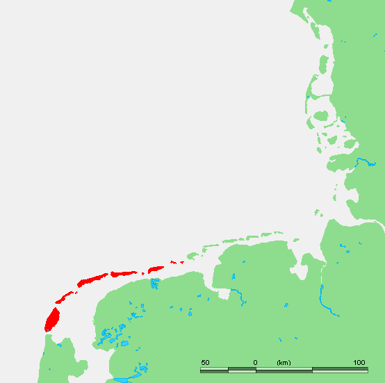 Locator map of the West Frisian Islands